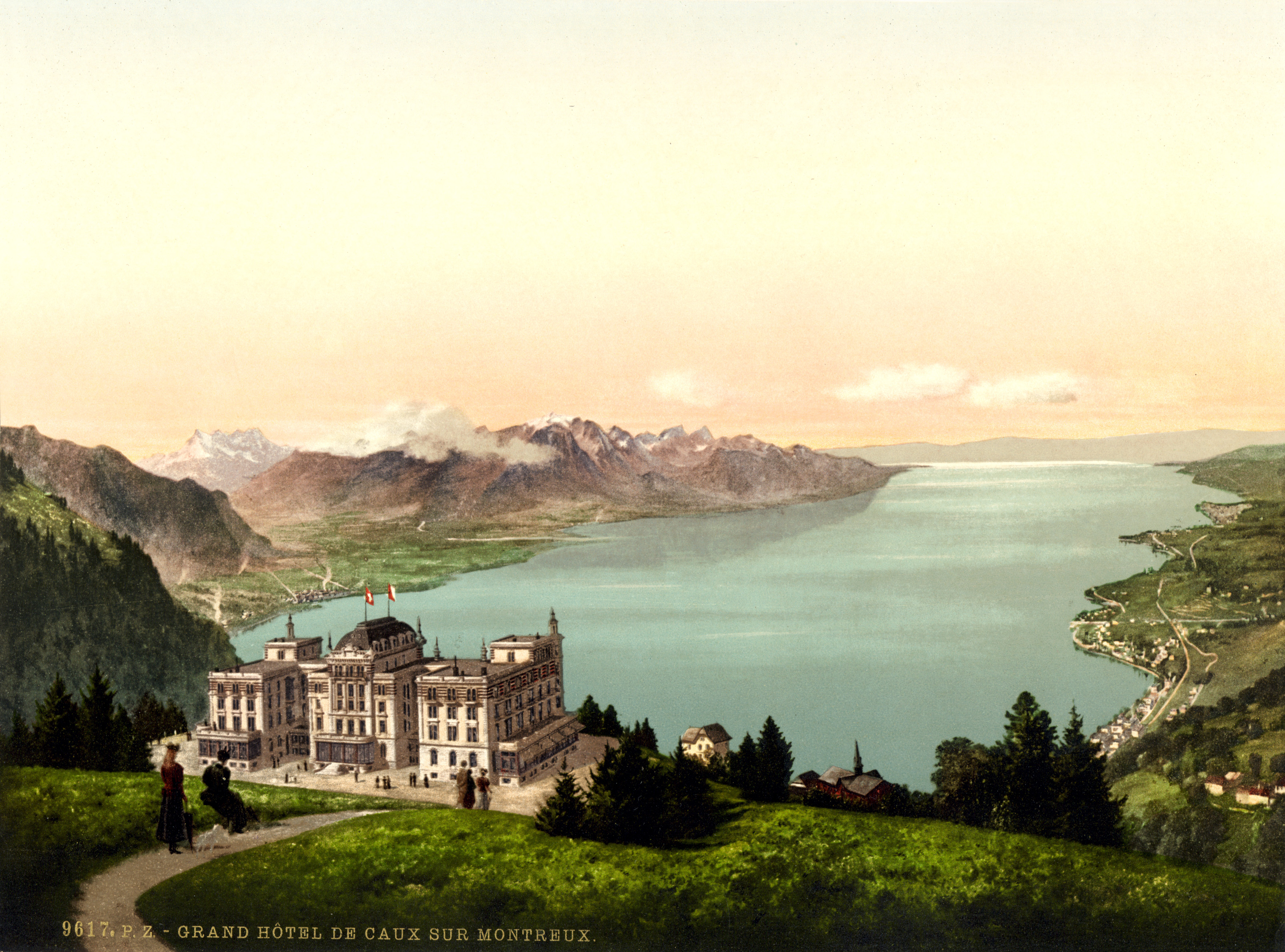 Rochers de Naye, and Hotel de Caux, Lake Geneva, Switzerland. 1 photomechanical print : photochrom, color.